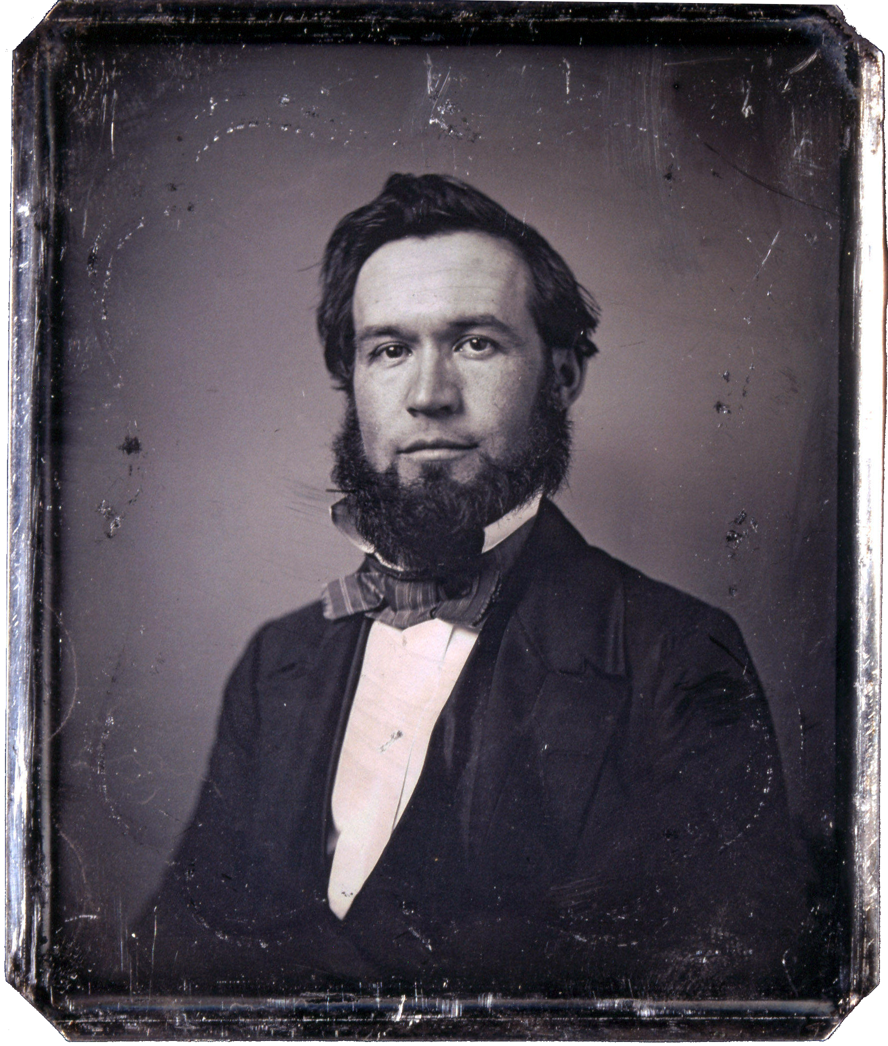 Daguerreotype portrait of Enoch Long